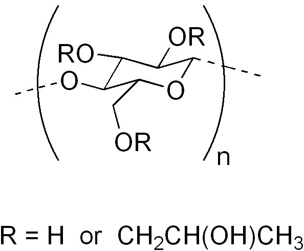 chemical structure of hydroxypropyl cellulose (hydroxypropylcellulose, HPC)